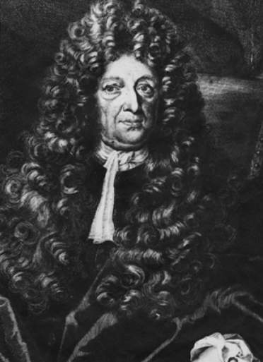 Johannes Bohn (1640–1718), German physician